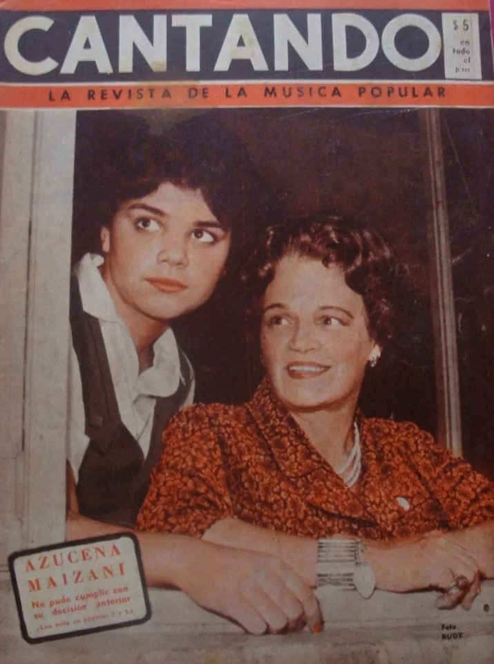 Azucena Maizani on cover of (Revista) Cantando Nº 158, 1960